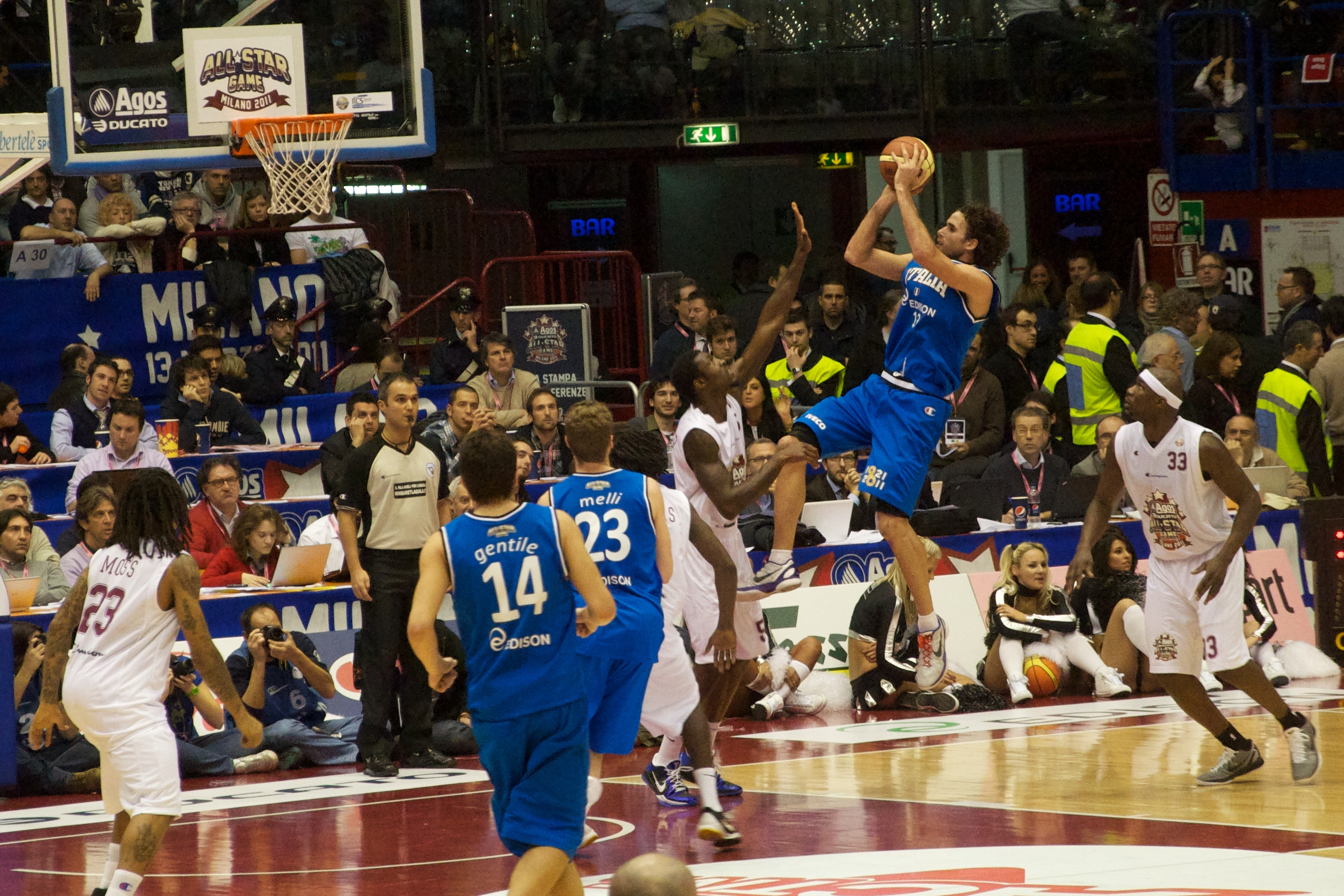 Luigi Datome playing for the Italy national basketball team against an all-star team at All-Star Game 2011 in Forum d'Assago, Milan, Italy.